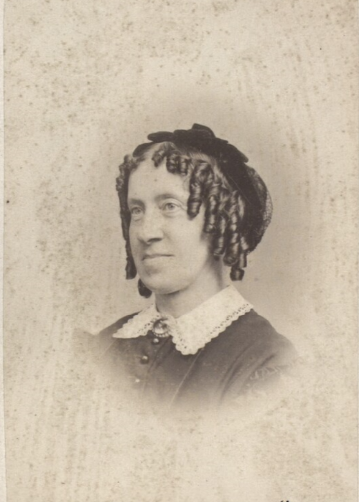 Louise Bjørnsen, Danish author